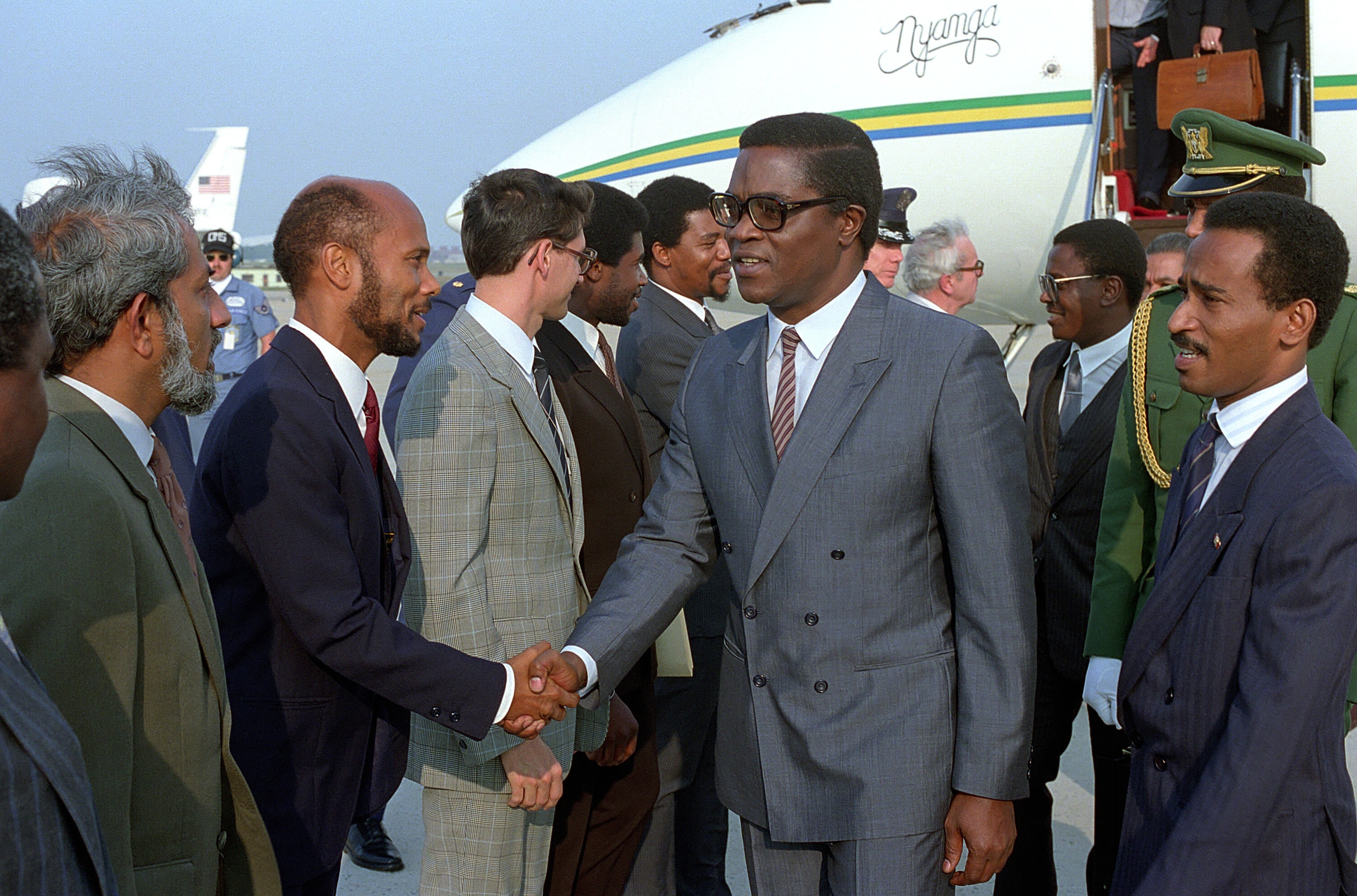 The President of the Democratic Republic of São Tomé and Príncipe, Manuel Pinto da Costa, greets an official US State Department delegation upon his arrival at Andrews Air Force Base, Maryland, USA.